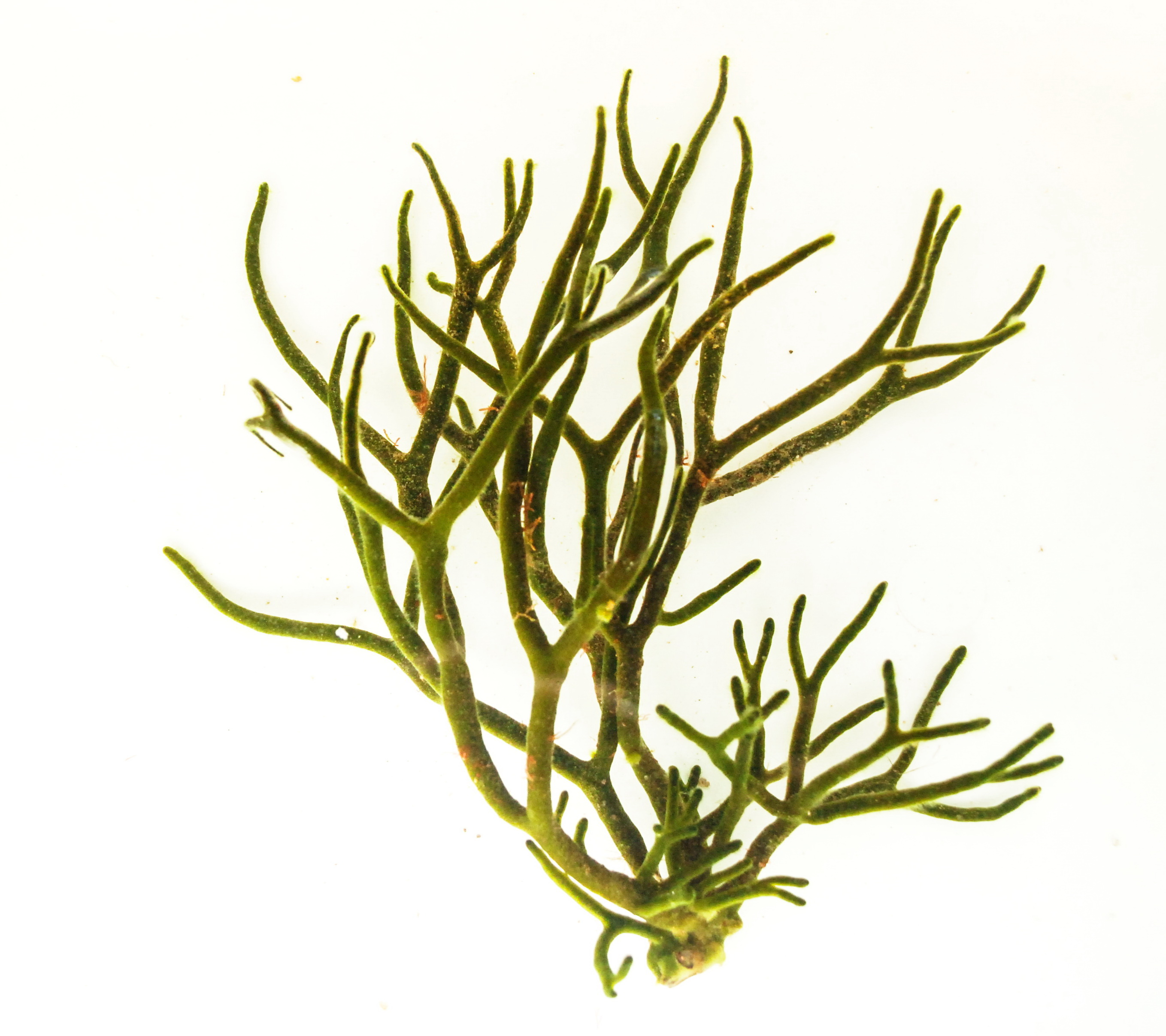 Codium vermilara - the green algae which added to Ukrainian red Book Lists in 2009 as rare species because of pollution of sea waters. Habbitats: stones and rocks from 3 to 25 meters, with clear water.